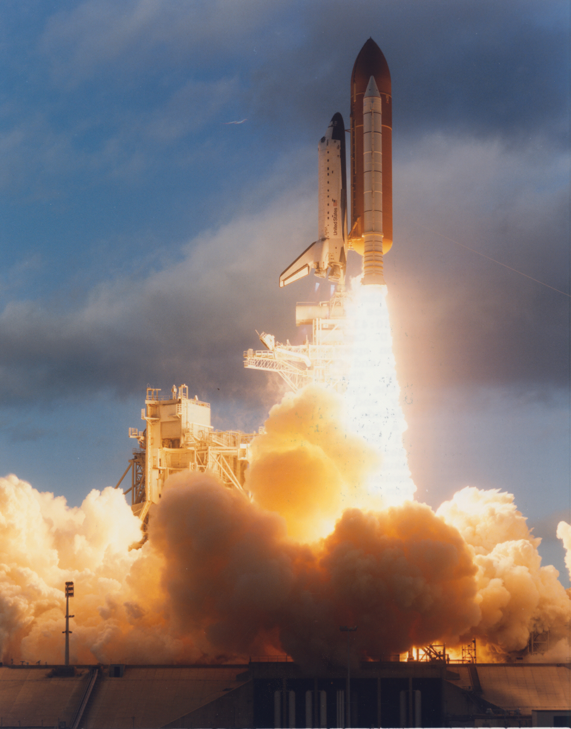 Kennedy Space Centre, Florida - Space Shuttle Atlantis launches from pad 39A at the start of STS-74.